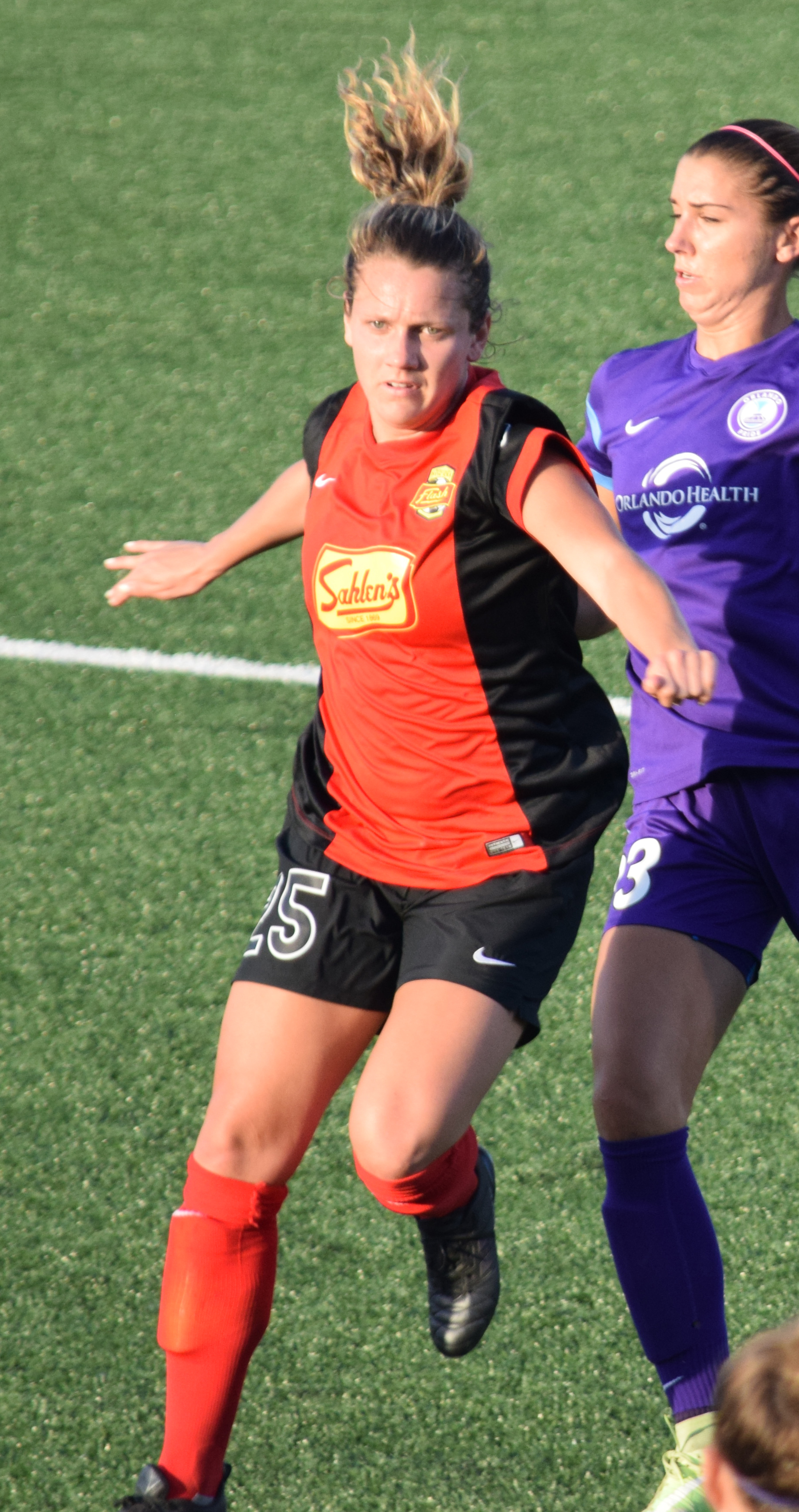 Meredith Speck with the Western New York Flash during a match against the Orlando Pride on June 11, 2016 in Rochester, New York